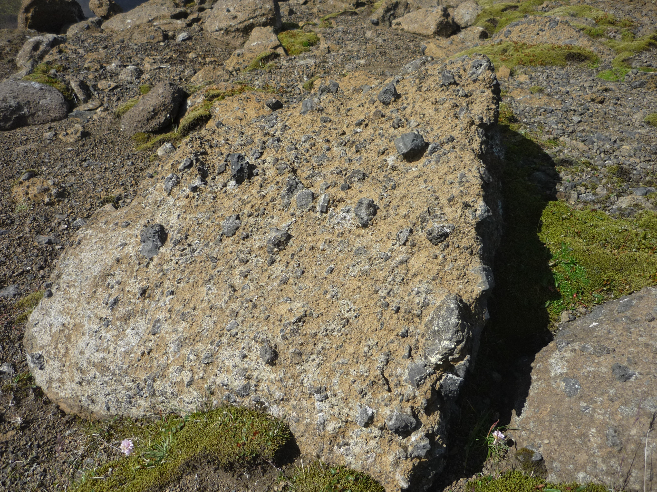 Hyaloclastite on Laki, Iceland